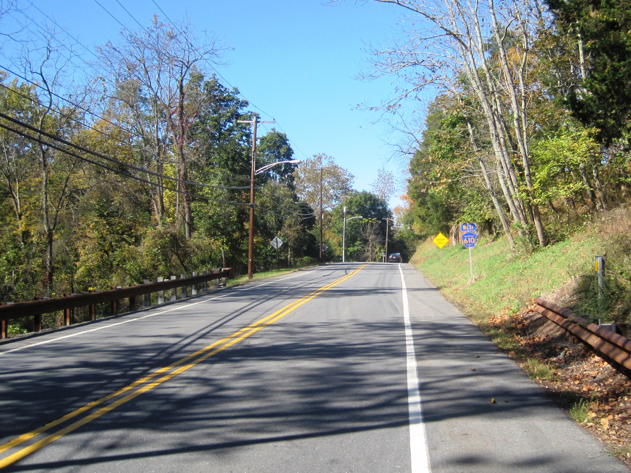 Photo of the Hunterdon County-maintained section of New Jersey Route 12 in Frenchtown, New Jersey. Photo taken along westbound Kingwood Avenue / Route 12 / County Route 610 past Horseshoe Bend Road